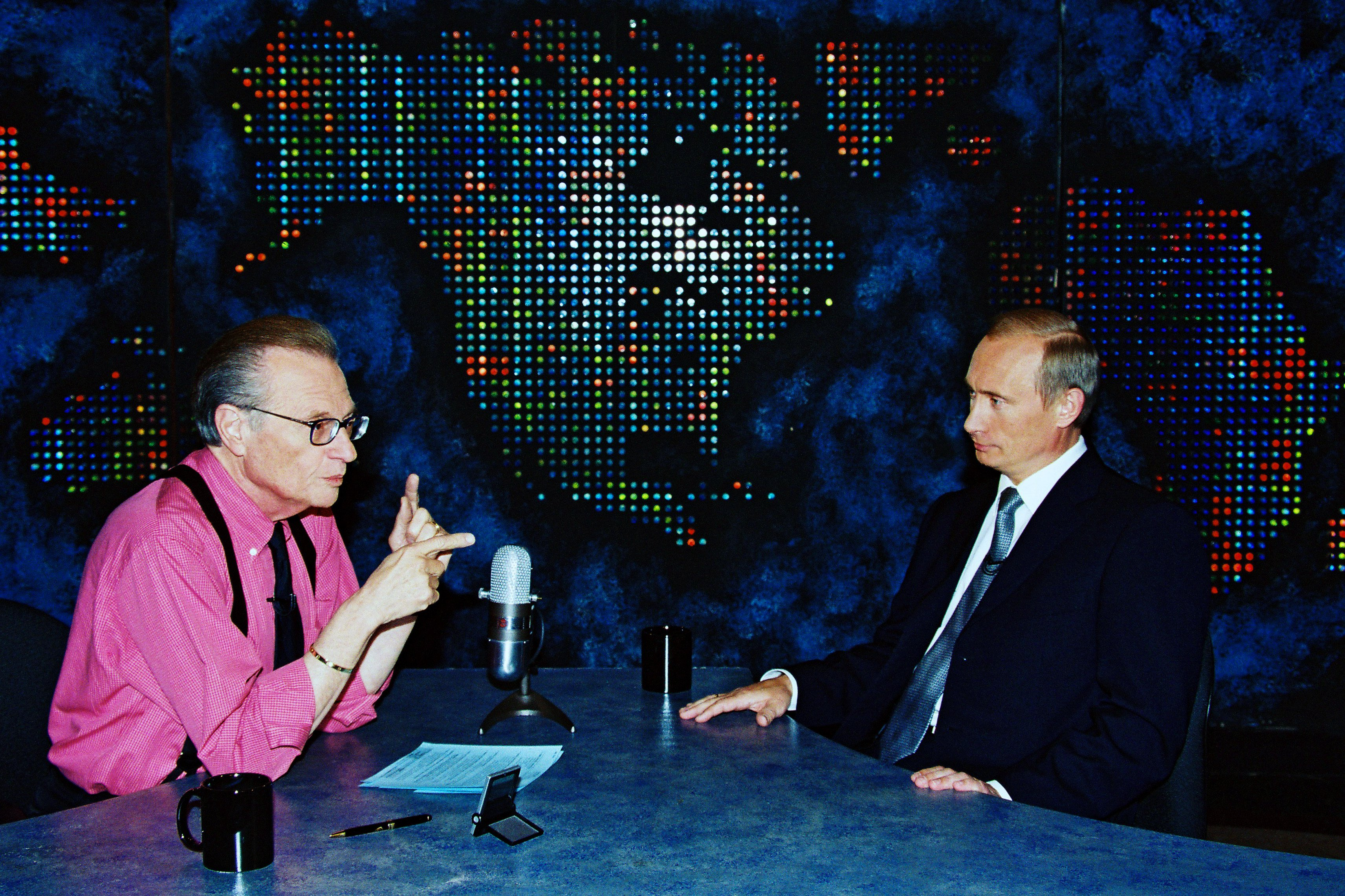 NEW YORK. Vladimir Putin interviewed by Larry King, an anchorman with the US CNN TV Channel.